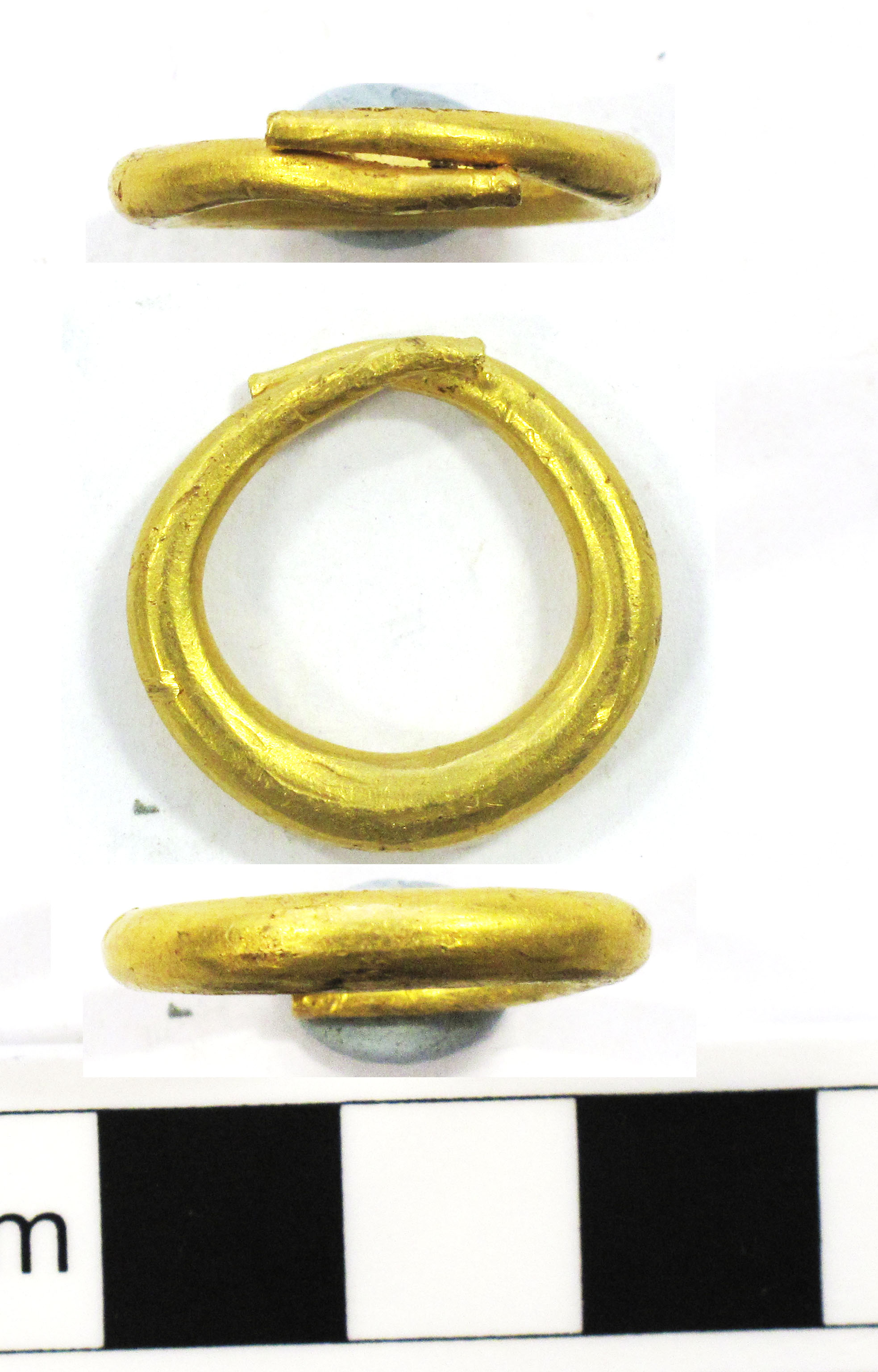 A gold penannular ear ring of Roman date. It is a penannular hoop with a thickened centre and tapered, chopped terminals. In profile the ear ring is sub-circular, and it is circular in section. It may be a Roman ear ring of Allason-Jones type 1. There is no decoration. Date: probably Roman. Dimensions: Diameter: 22.74mm. Thickness: 4.37mm. Weighing: 9.4g. The age and precious metal content of this item therefore qualify it as treasure under the stipulations of the Treasure Act 1996. Dr Rob Collins